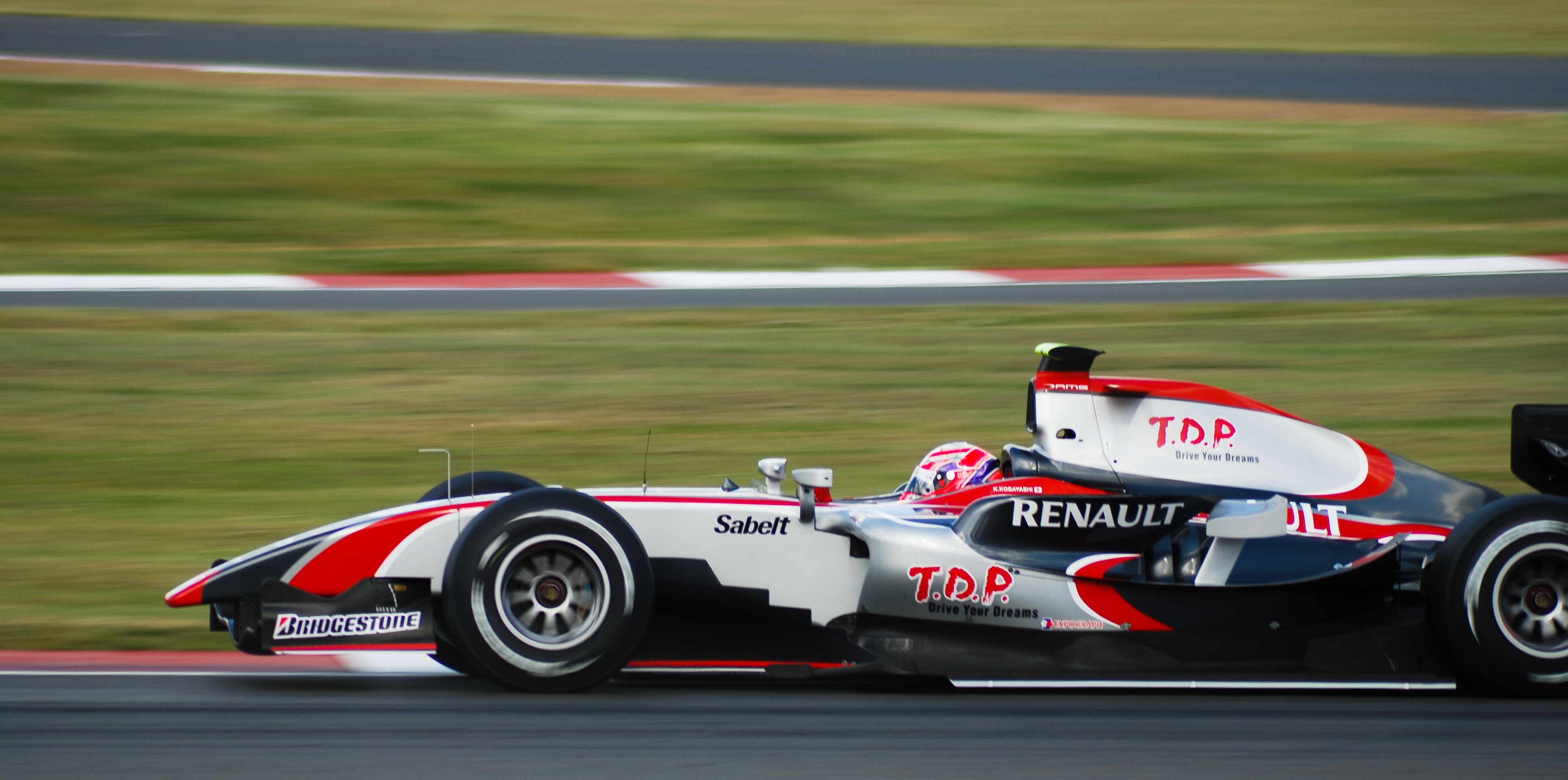 Kamui Kobayashi driving for DAMS at the Silverstone round of the 2008 GP2 Series season.